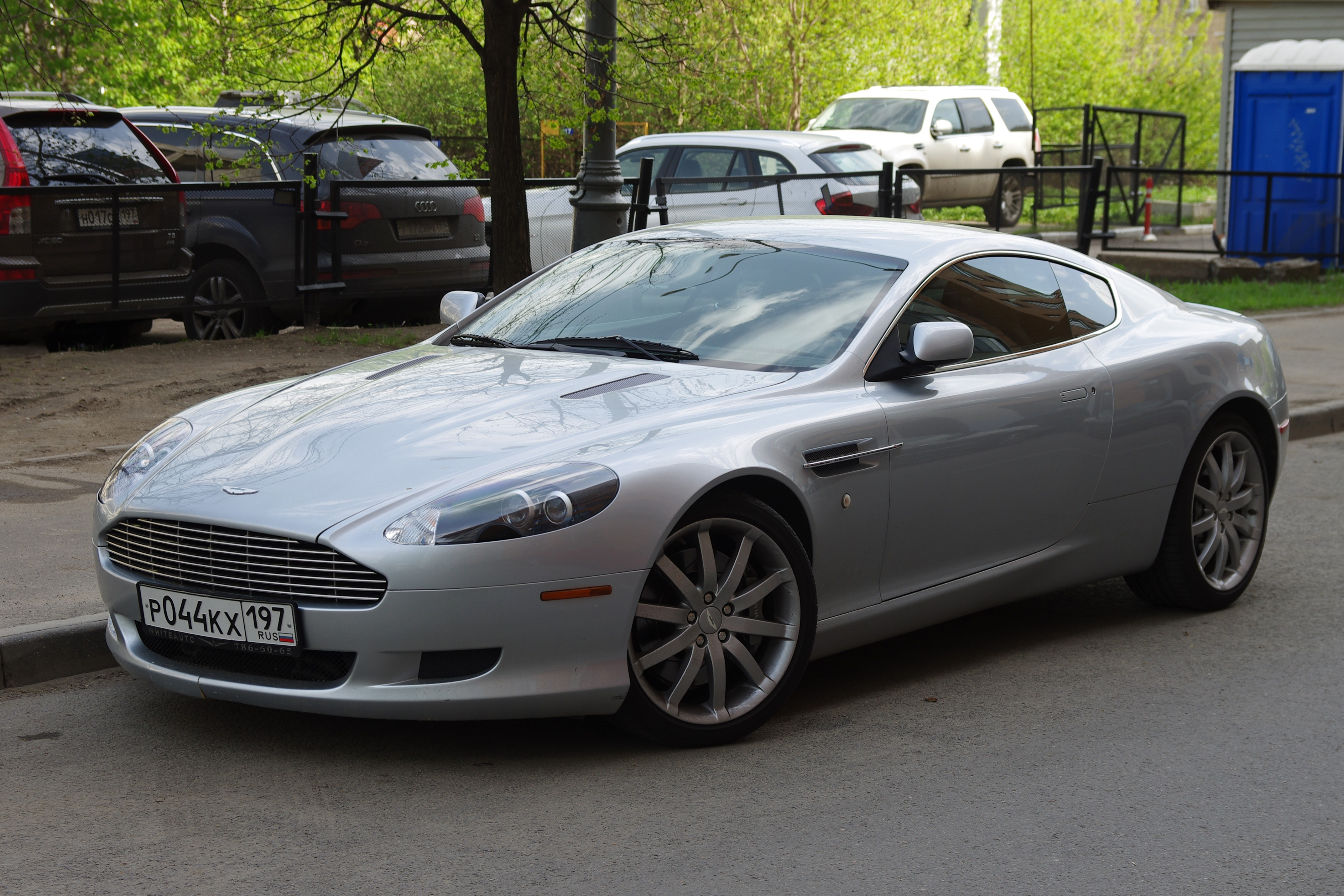 Aston Martin DB9 coupe in Moscow, fron side view